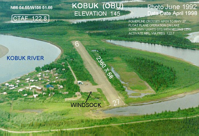 Kobuk Airport (OBU) Oblique-Southeast aerial photograph in Kobuk, Alaska, United States.